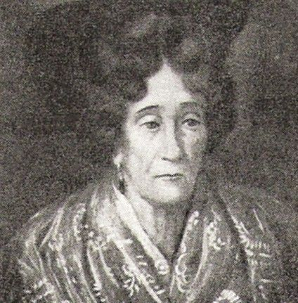 Mercedes Lasala (25 September 1764 – 1 January 1837) was an Argentinian philanthropist.